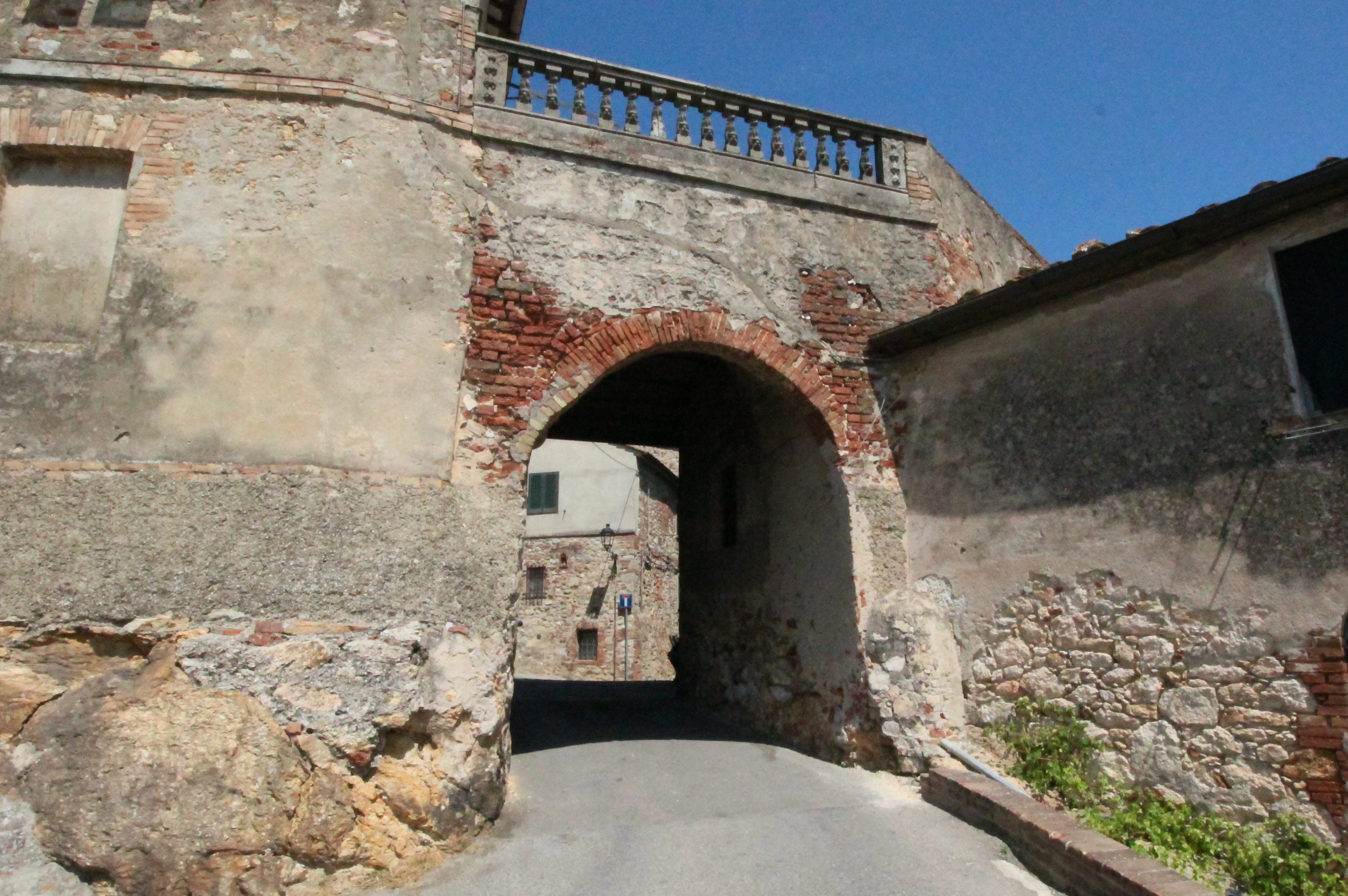 Porta Piccina, defensive gate of Civitella Marittima, hamlet of Civitella Paganico, Province of Grosseto, Tuscany, Italy